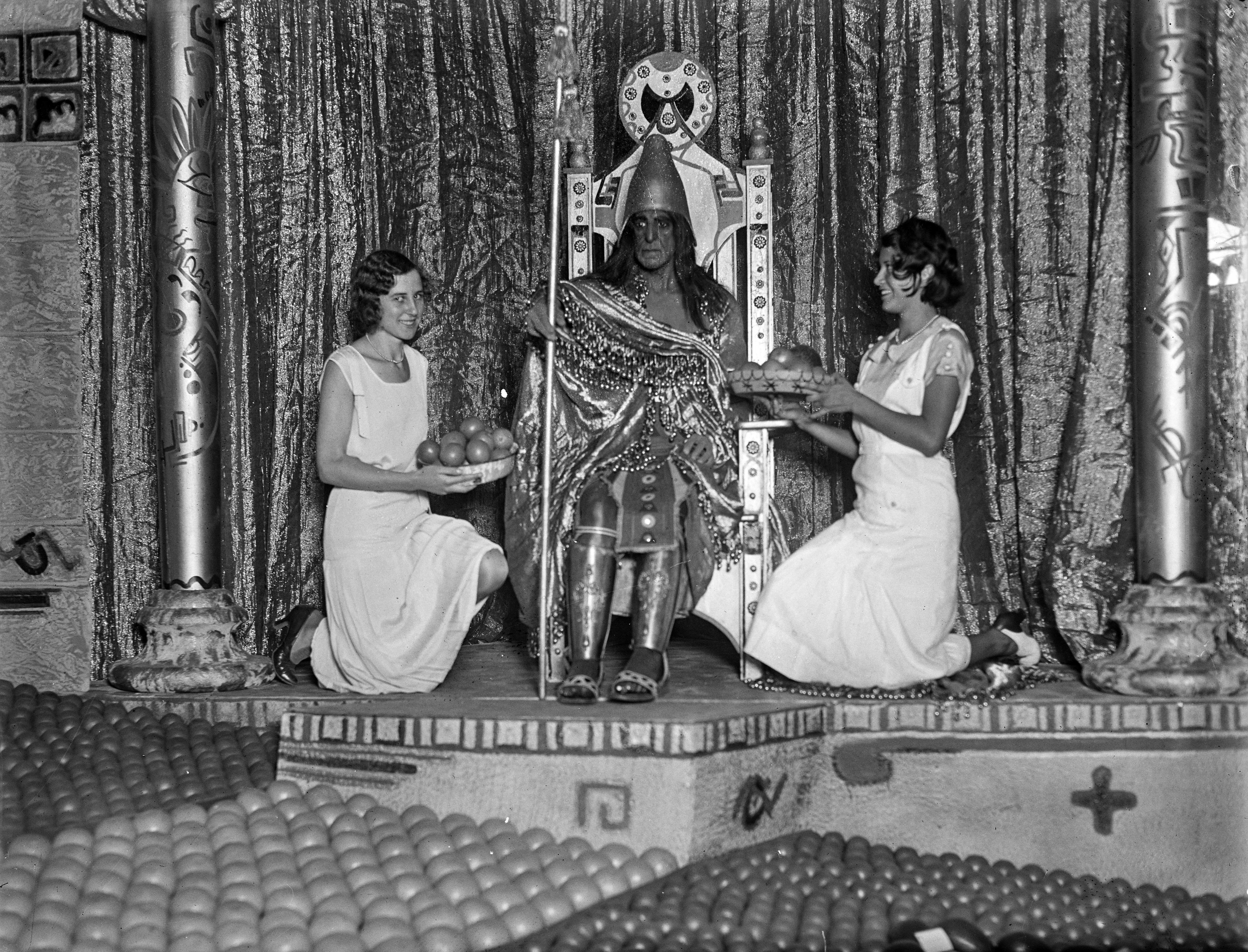 Title: Man dressed as Aztec Emperor Montezuma with two women flanking him at 1931 Valencia Orange Show Published caption:Paying Homage to Montezuma at Pomona Display Publication:Los Angeles Times Publication date:June 5, 1931 Source:Los Angeles Times photographic archive, UCLA Library Licensing Note about non-renewal of copyright: [1]